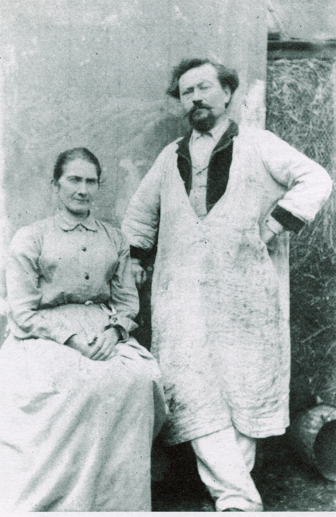 Carbonnel and his wife